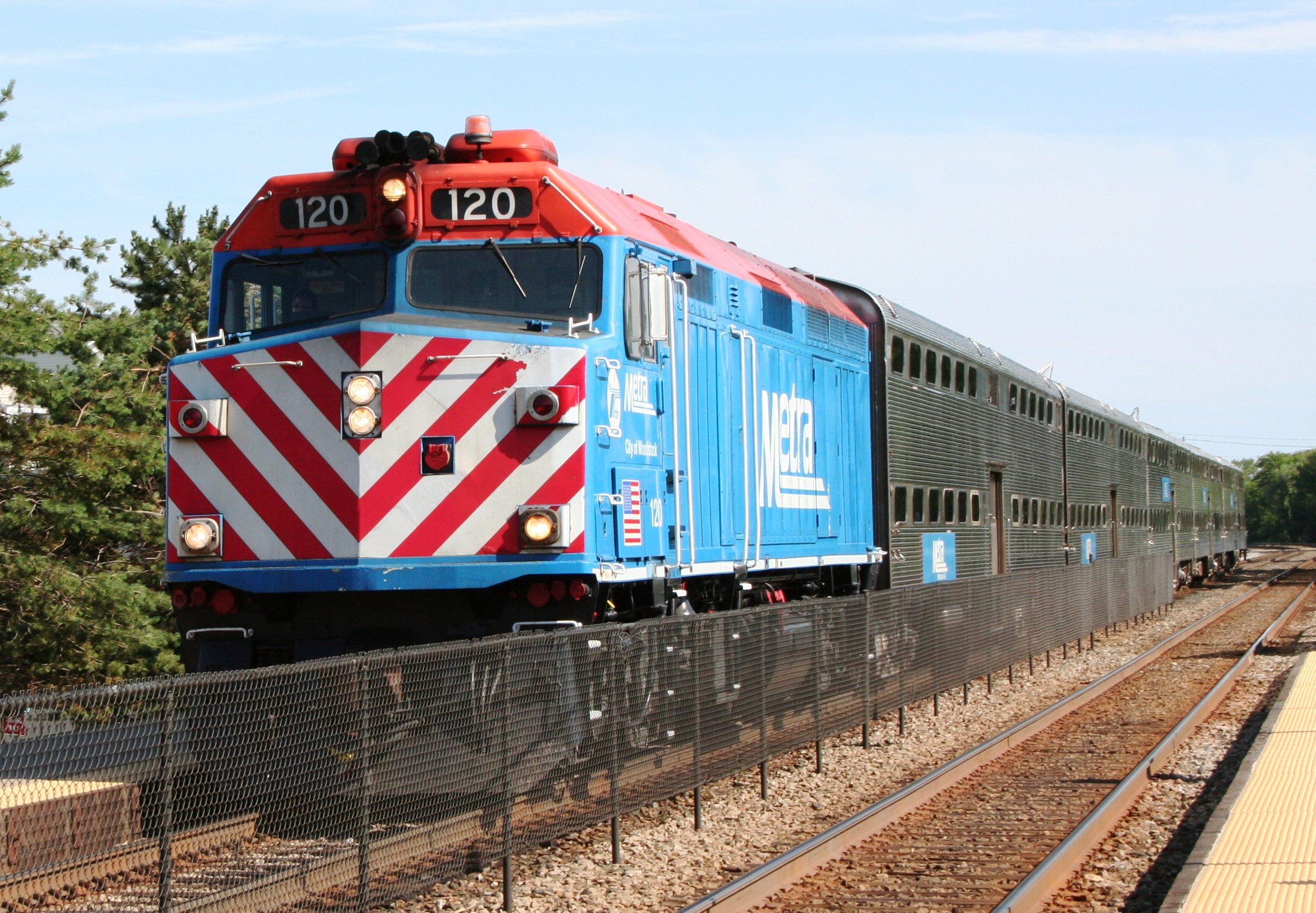 Metra F40PH-2 120 "City Of Woodstock" approaching the Deerfield station in Deerfield, Illinois.